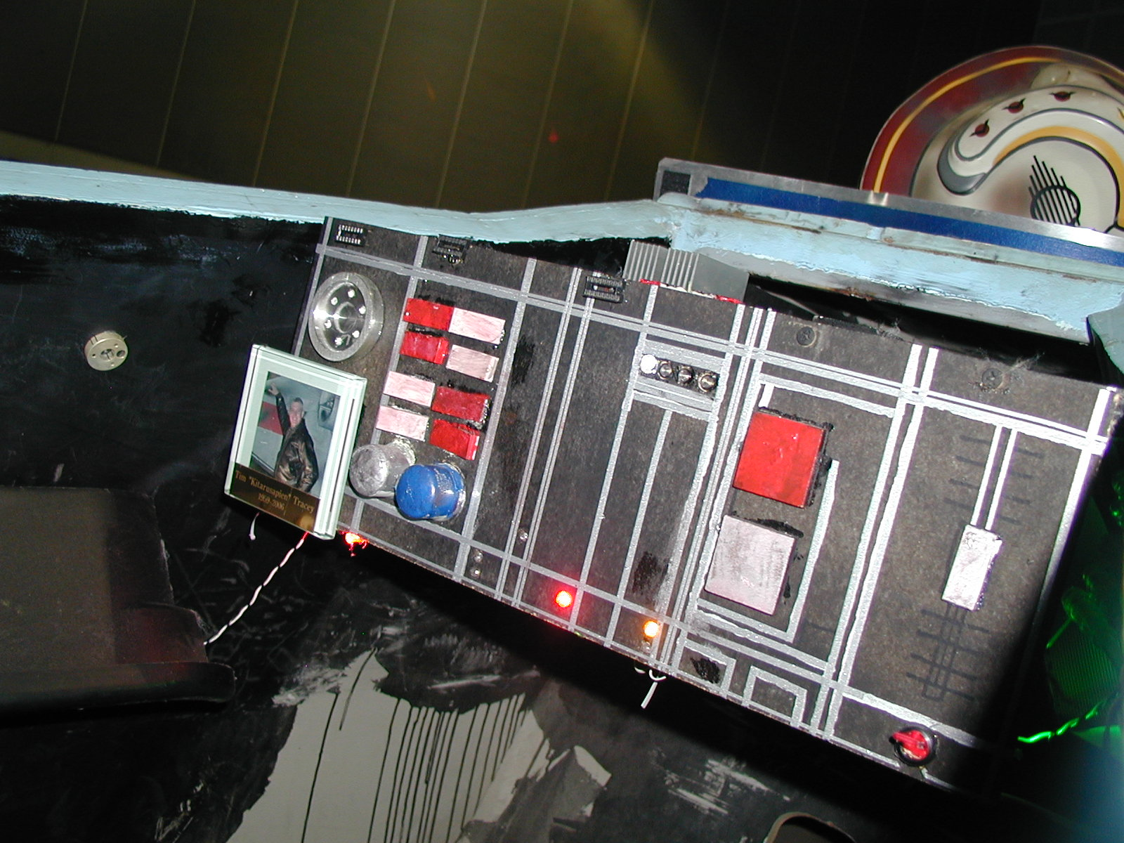 Fans and volunteers assemble the near-life-size X-wing.